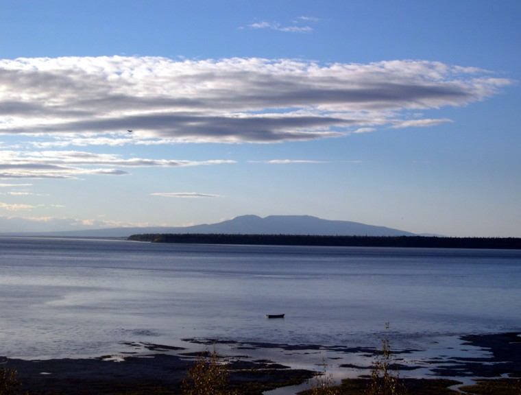 View across Cook Inlet from downtown Anchorage, Alaska (September 2005). Photo by Peter Rimar.